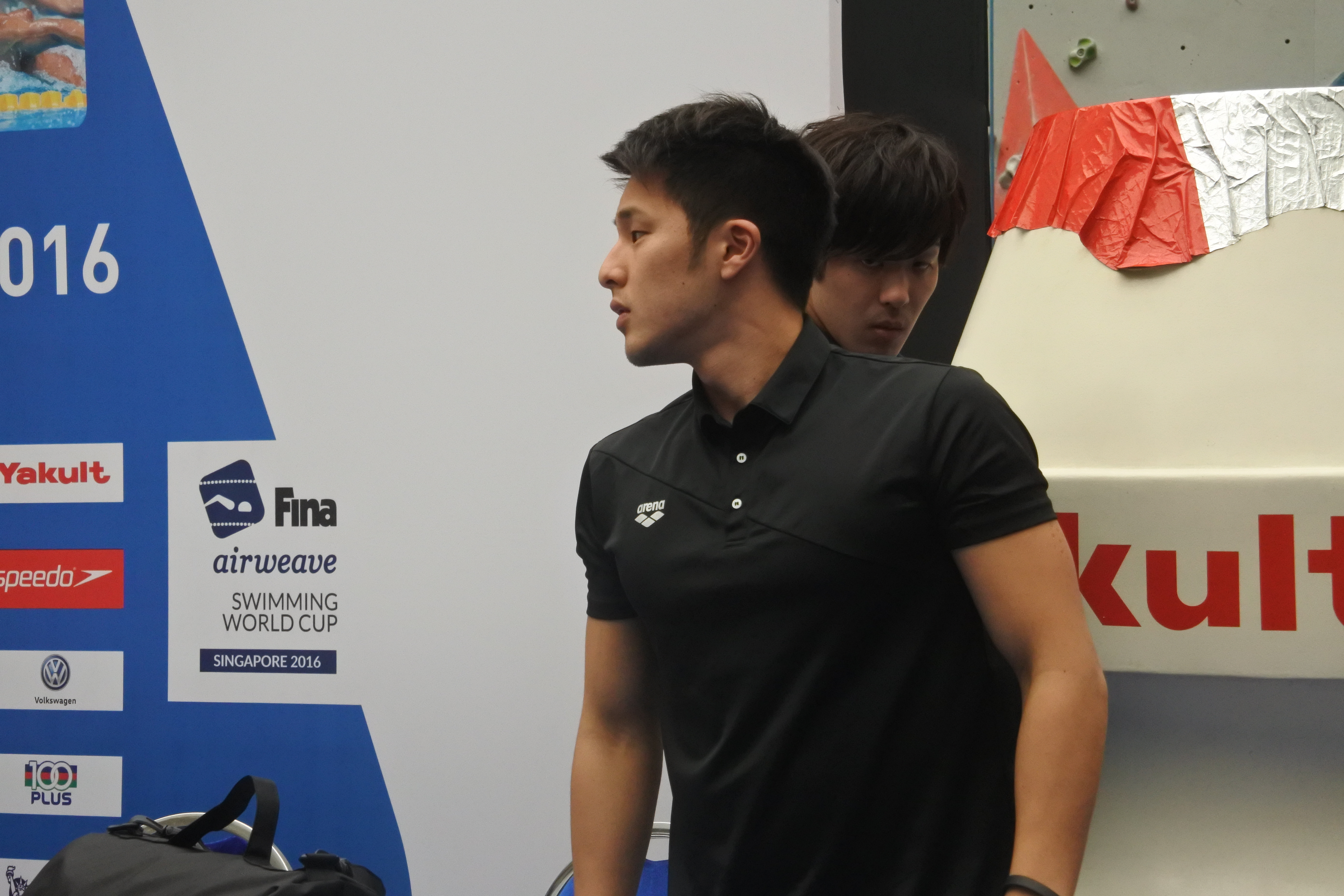 Seto at Kallang, Singapore